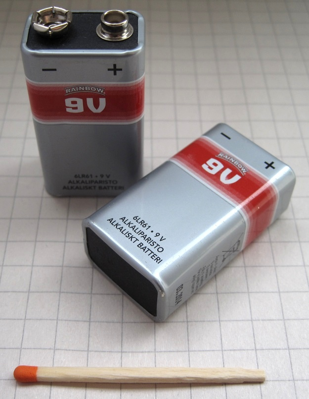 2 9-Volt (PP3) type batteries with a matchstick for comparison. This is an ordinary matchstick like the kind that comes in match boxes. It is not a giant or super matchstick, in fact you probably have one in your home right now!